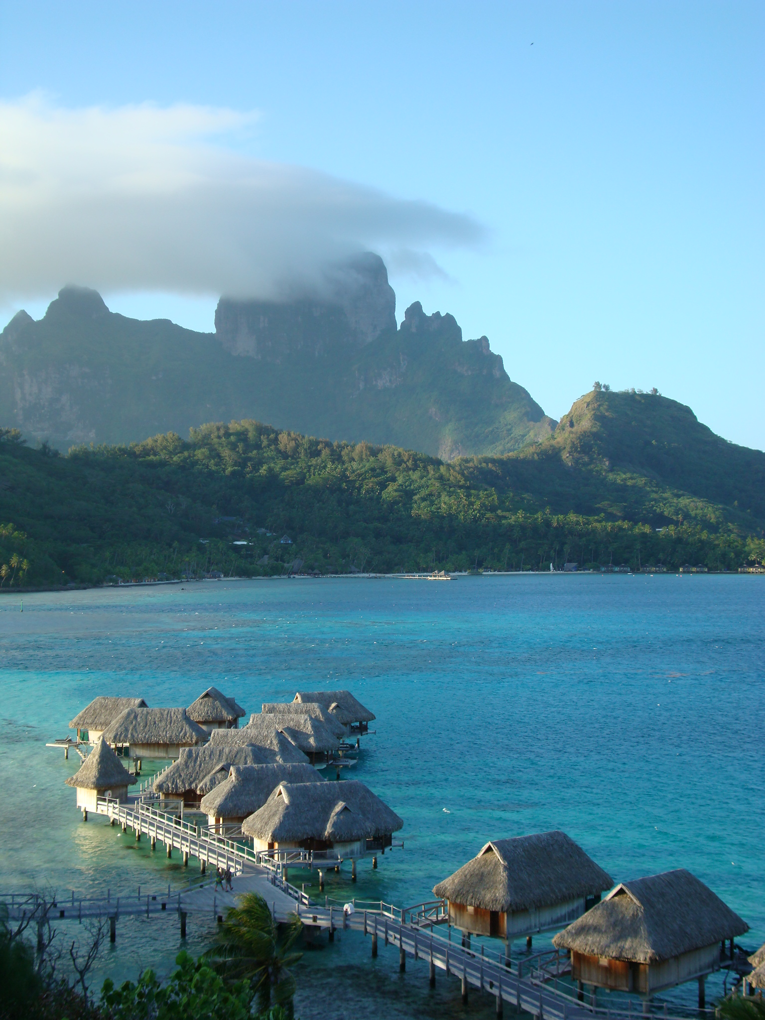 Bungalows in Bora Bora.